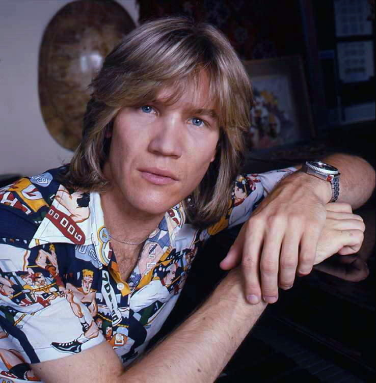 portrait of Patrick Juvent